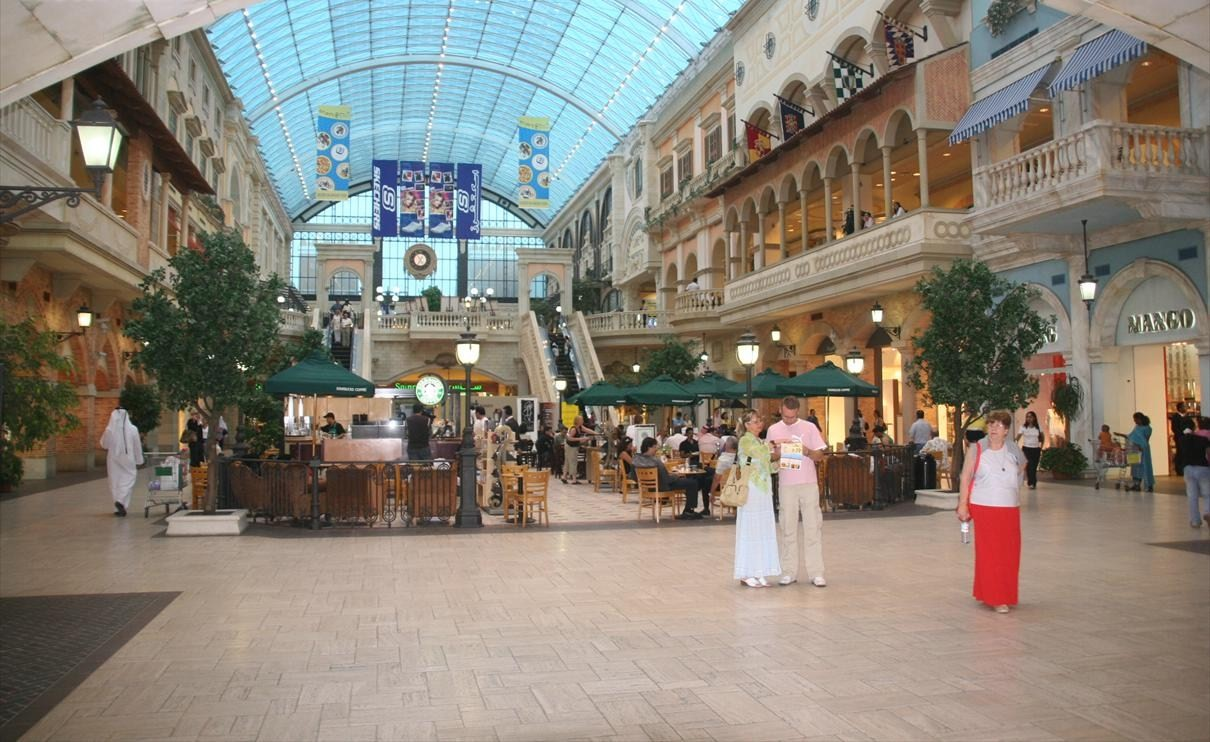 This is a photo of the interior of the Mercato Shopping Mall in Dubai, United Arab Emirates on 5 June 2007.